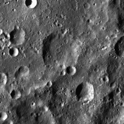 LROC . Raspletin at center, located on SE rim of Gagarin